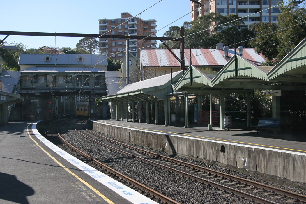 Waverton railway station, New South Wales, Australia. Facing north. Taken 5 September 2006.